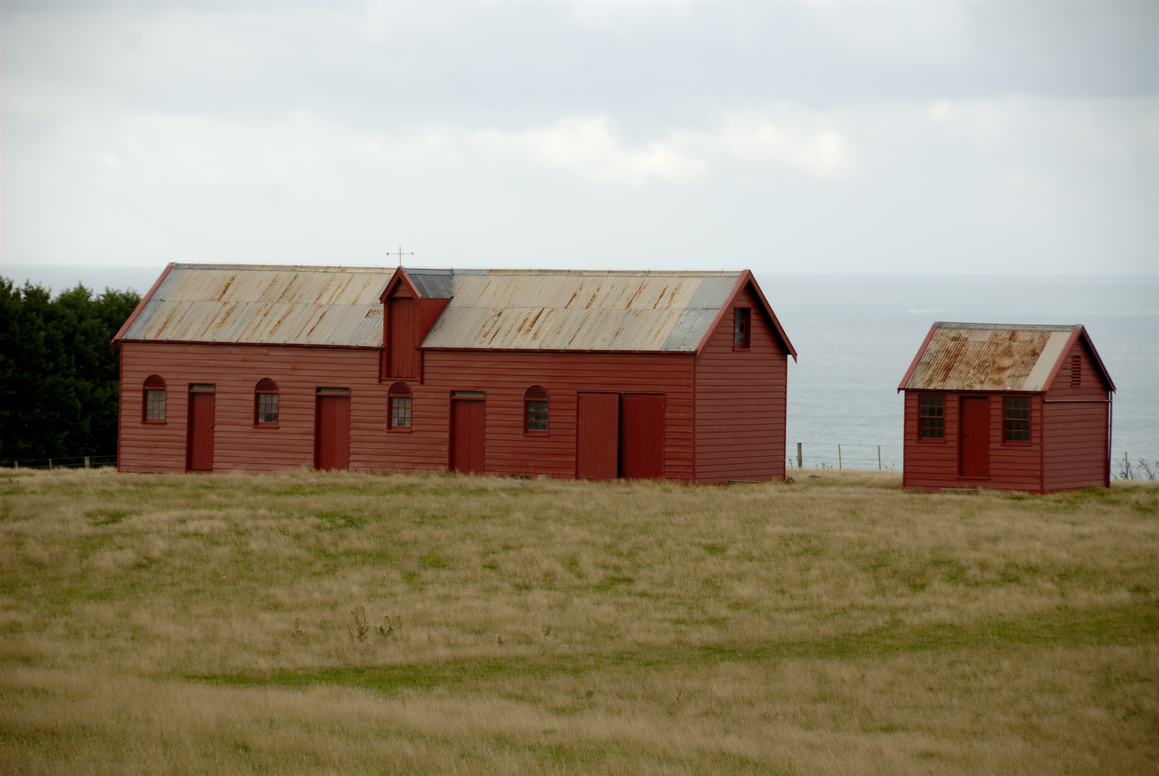 This stables at Matanaka is one of New Zealand's oldest surviving wooden buildings. These buildings are registered Category I historic places with the New Zealand Historic Places Trust.